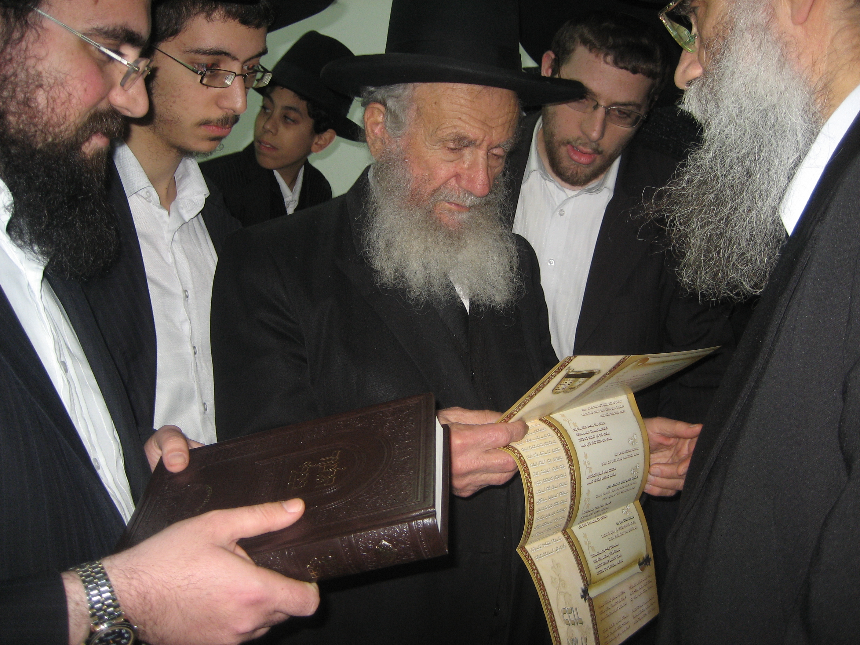 rabbi Jakob Edelstein